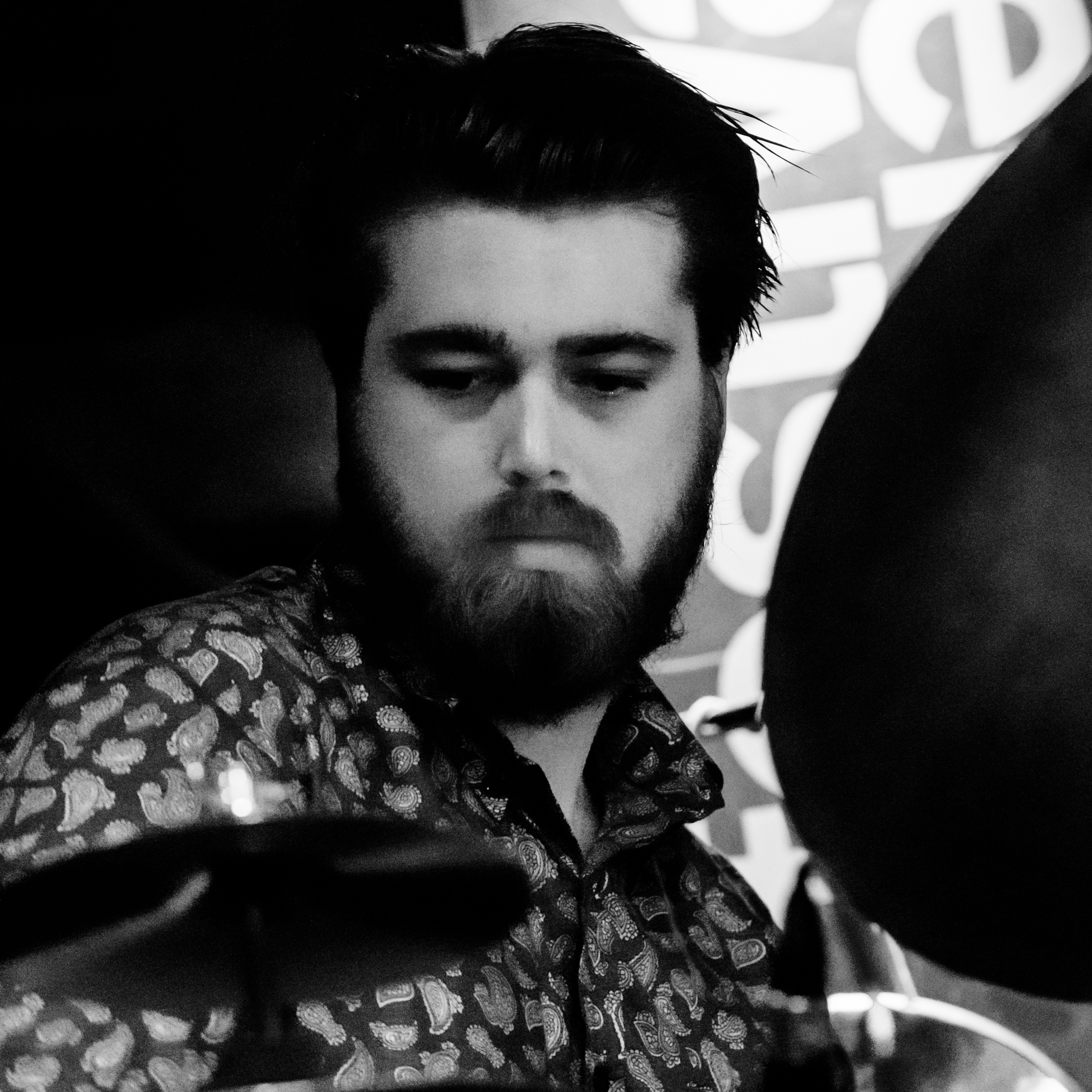 Norwegian drummer Ole Mofjell at the Moers Festival 2016